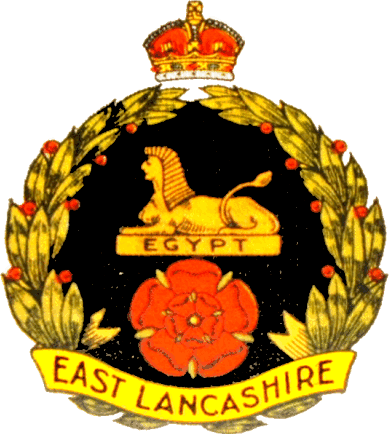 Badge of the East Lancashire Regiment. Based on scan from 1915 cigarette "silk", digitally enhanced and recoloured by uploader User:Lozleader